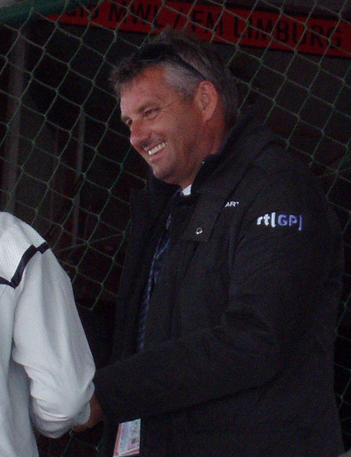 Dit is Allard Kalff, werkzaam voor RTLGP, tijdens de Superleague race op Zolder, 19 juli 2009.